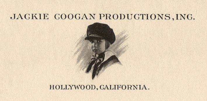 Jackie Coogan Productions official corporation logo.